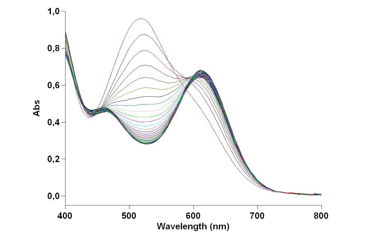 Ultraviolet-visible spectroscopy of isomerisation kinetics from trans-Dichlorobis(ethylenediamine)cobalt(III) chloride to cis-Dichlorobis(ethylenediamine)cobalt(III) chloride in Methanol, T=50°C. The top (red) one is for cis- and the bottom (denser) ones are for trans- isomer. Measured at University of Graz.